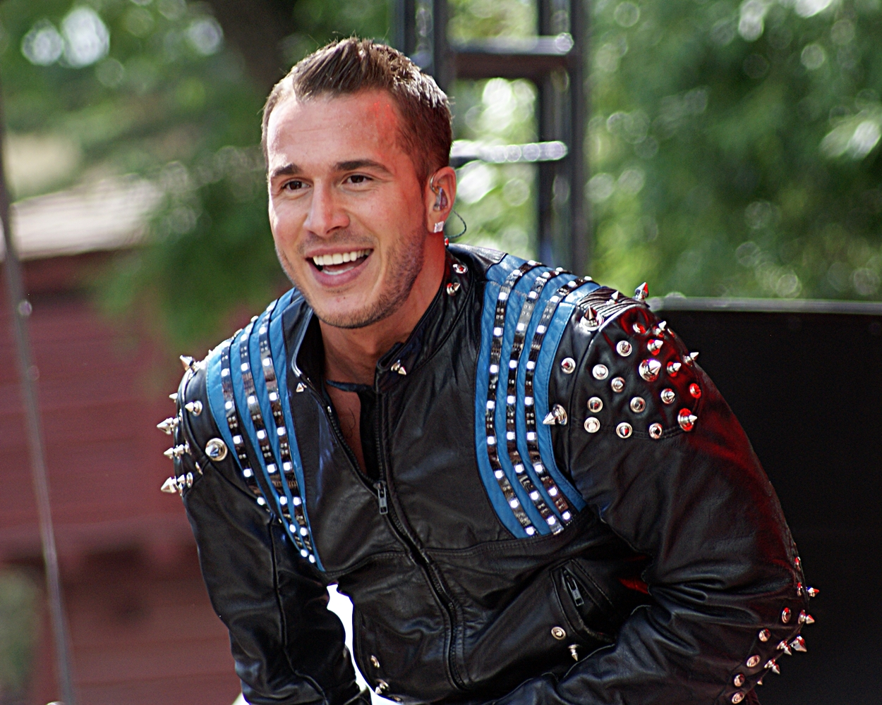 Shawn Desman, born January 12, 1982, is a Canadian pop/R&B singer from Vaughan, Ontario. His 2002 self-titled breakthrough album featured three top ten singles ("Shook", "Spread My Wings", and "Get Ready") on the Canadian charts and went on to achieve gold certification in Canada. Photo taken on July 11, 2011 during a live performance at the Calgary Stampede on the Coca-Cola Stage in Calgary, Alberta, Canada.